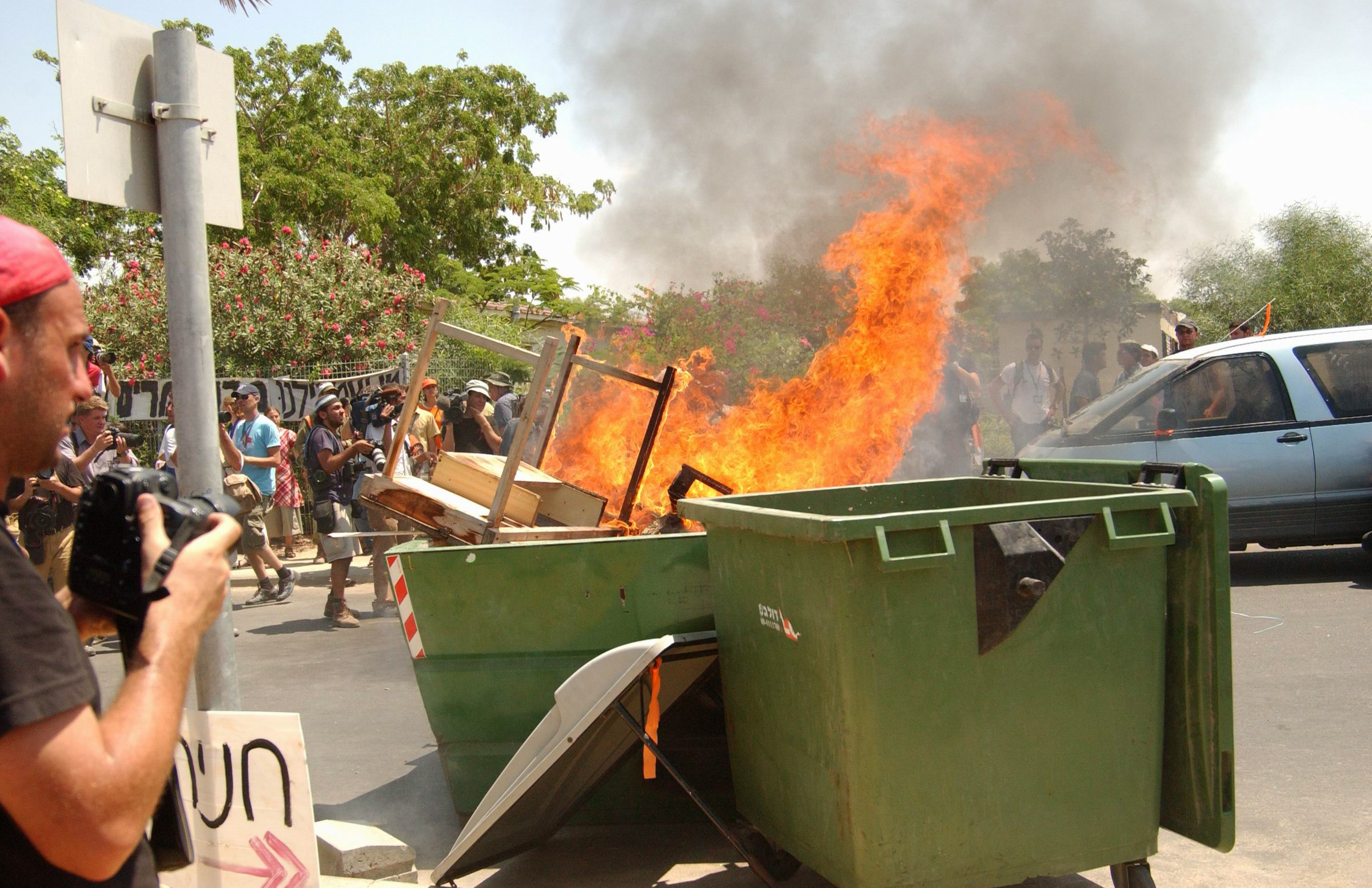 August 16, 2005. The residents of the Israeli community Neve Dekalim riot during the forced evacuation of their homes. The evacuation of Neve Dekalim was part of the Gaza Disengagement, which occurred during the summer of 2005.